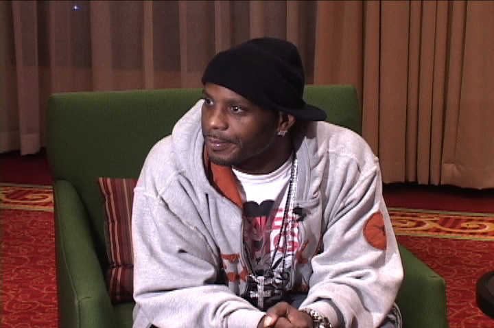 DMX in Iowa City.